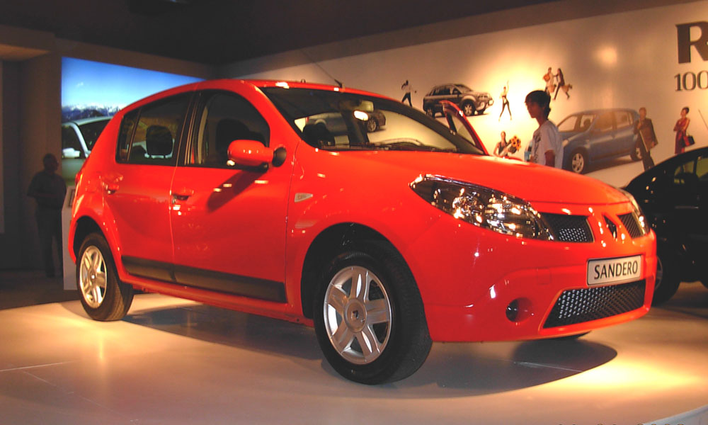 A Renault Sandero at the 2008 Montevideo Motor Show.